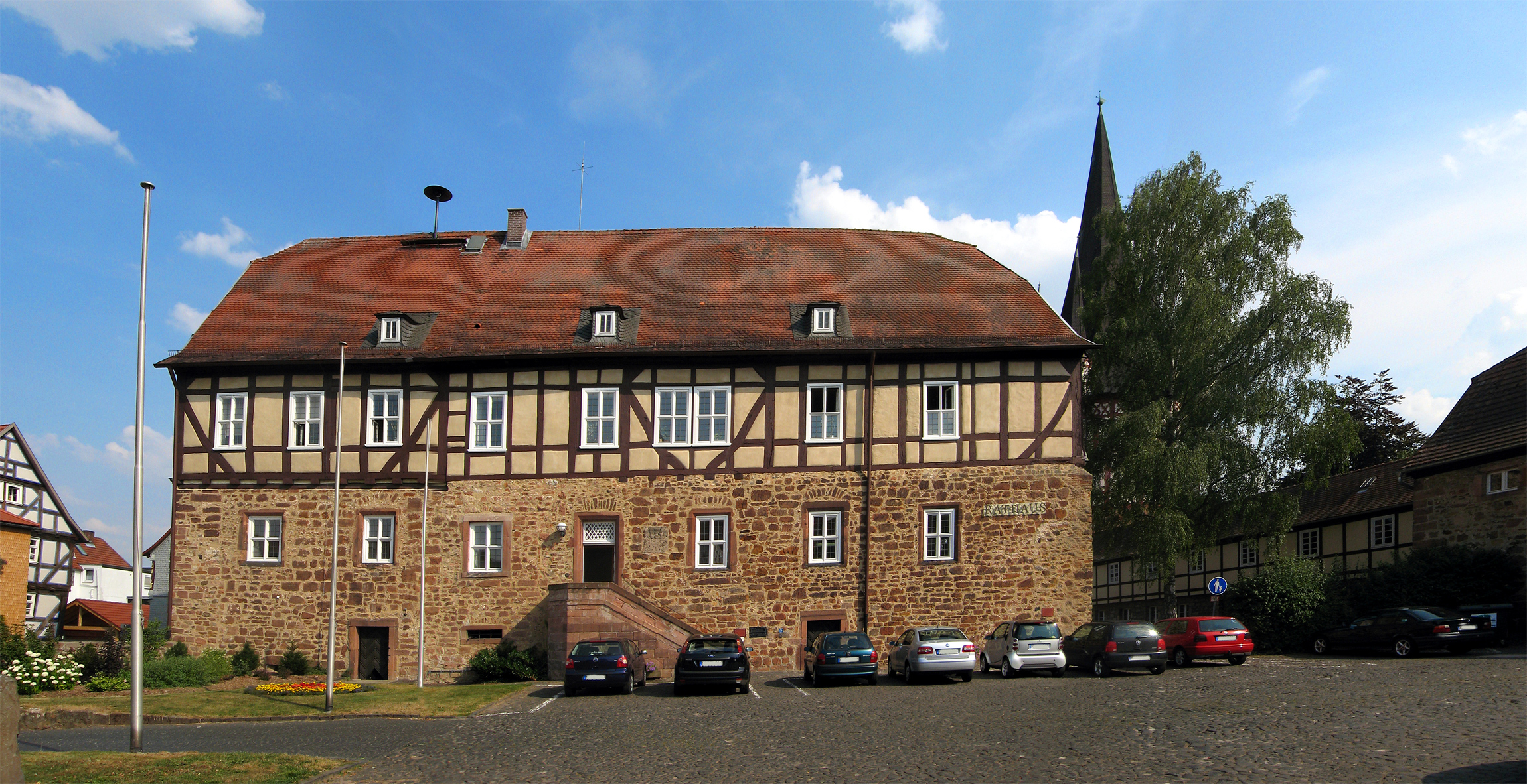 The Dörnbergsche Castle serves as town hall of Neustadt. It has been built in 1489, later on used as a town hall from 1952.